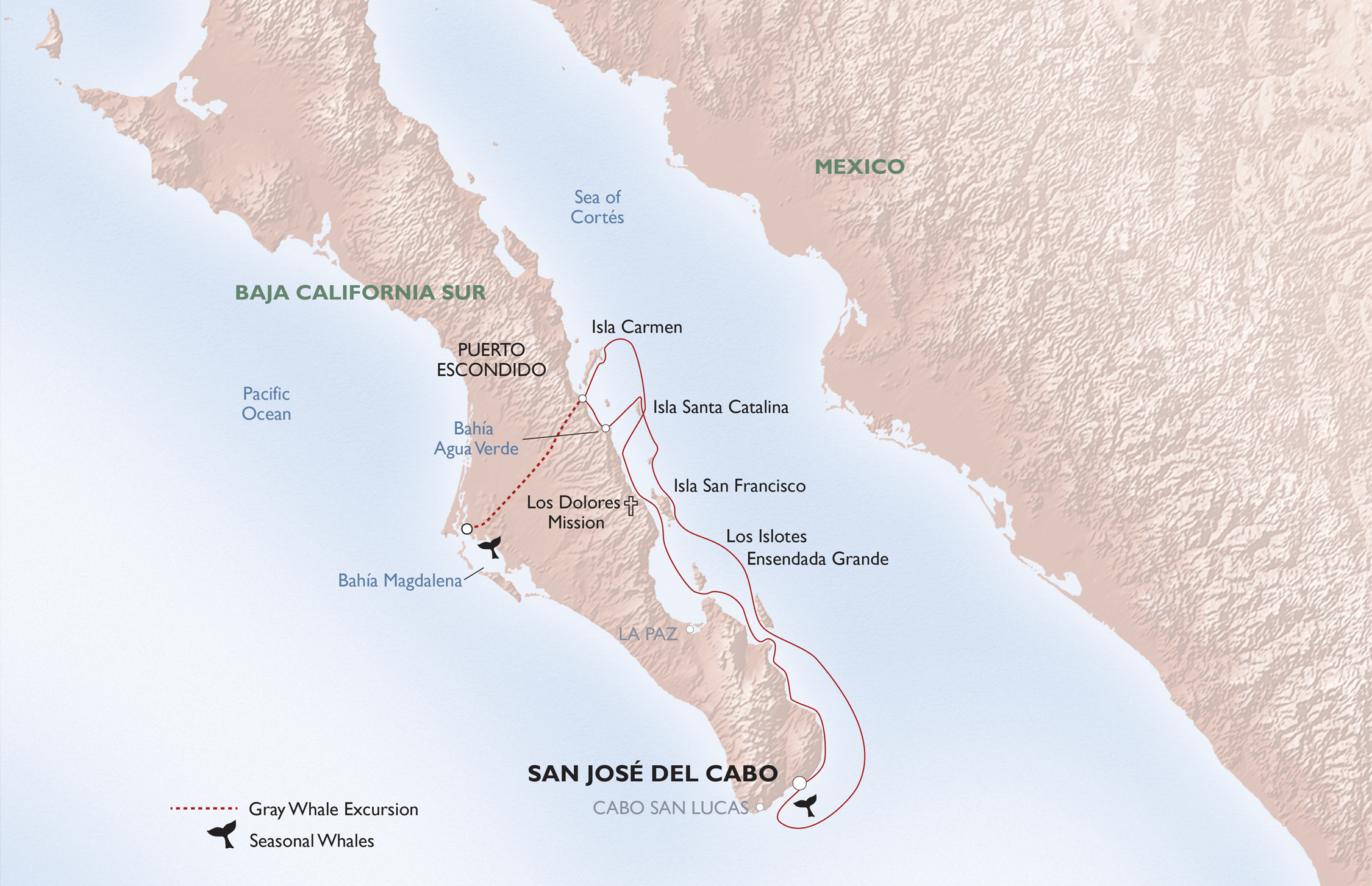 Itinerary map for Un-Cruise Adventures’ B.C.'s Yachters' Paradise tour